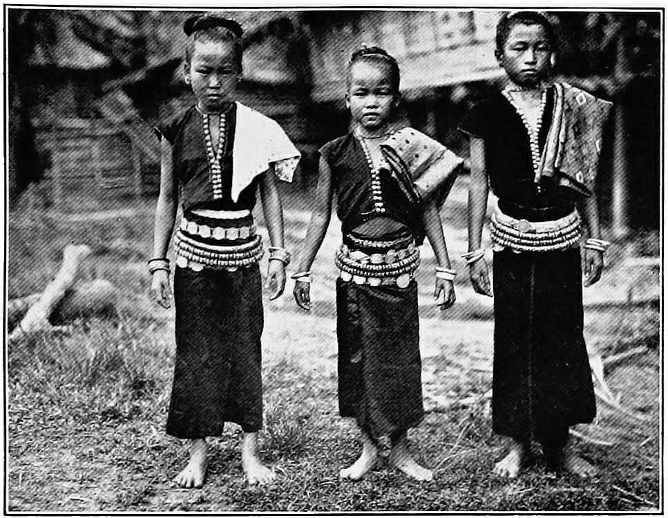 Dusun girls of Putatan